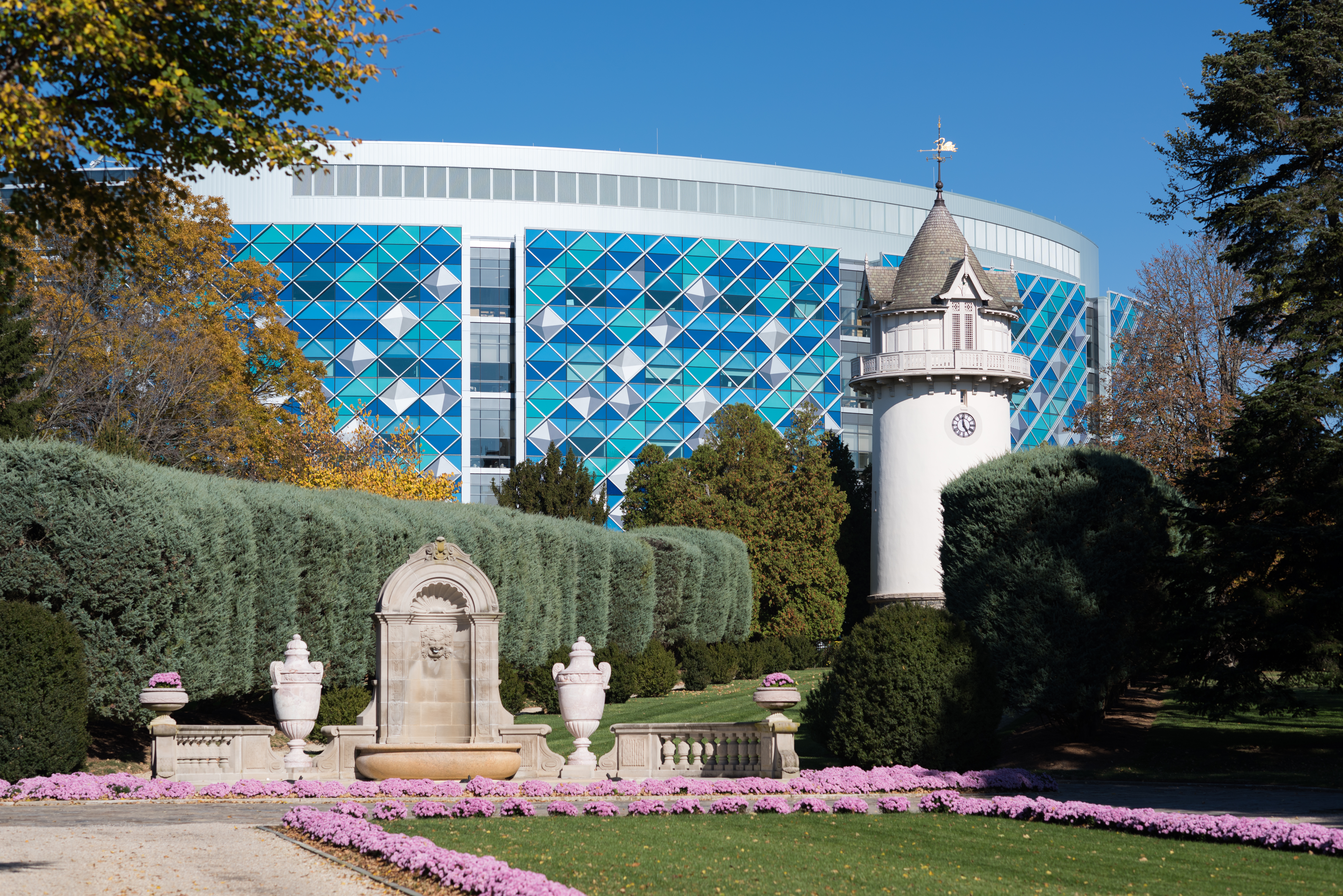 Nemours Alfred I. duPont Hospital for Children as seen from Nemours Mansion and Gardens.